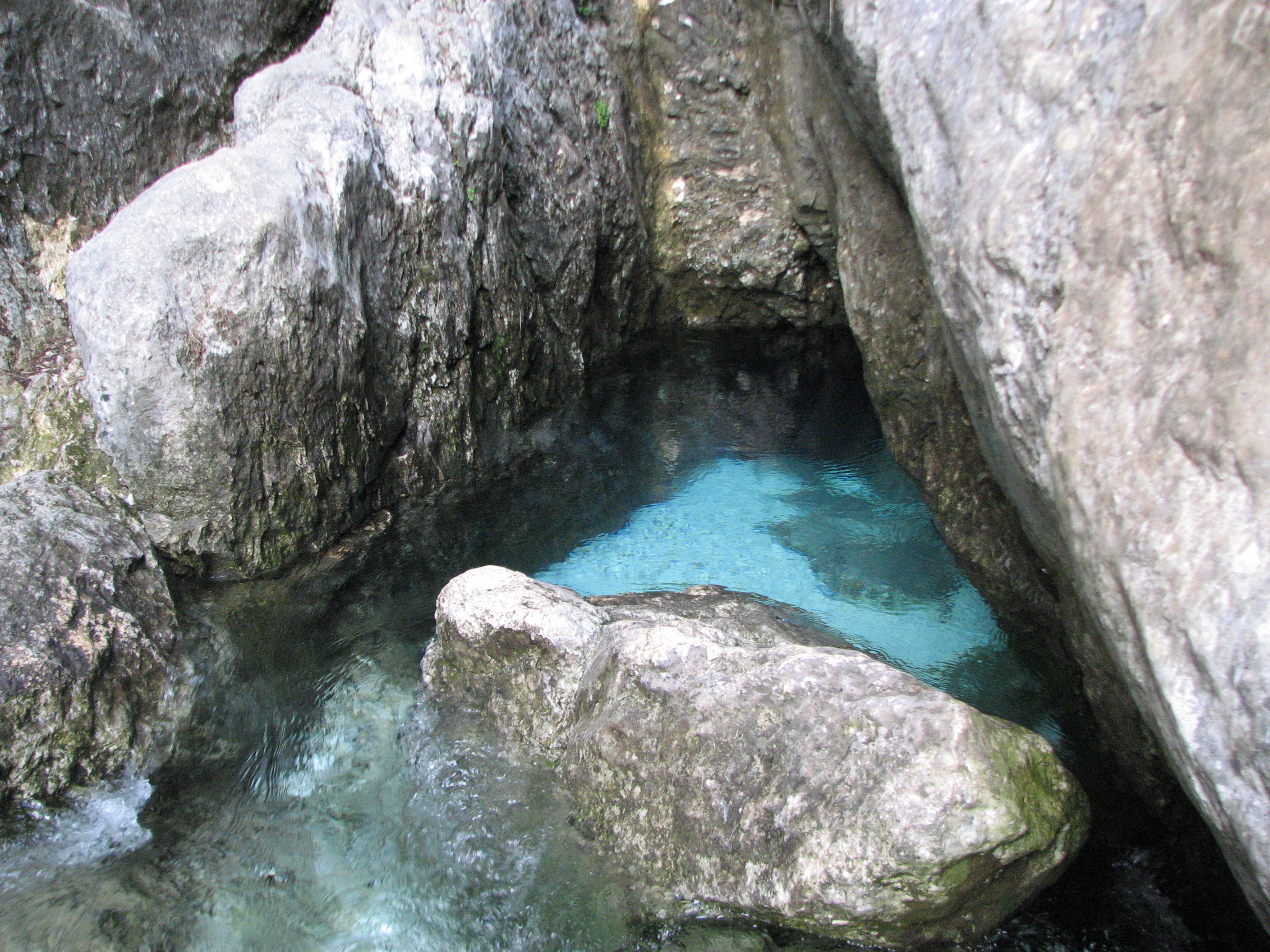 The river Soča as it springs from the underground in the Trenta valley, Slovenia.